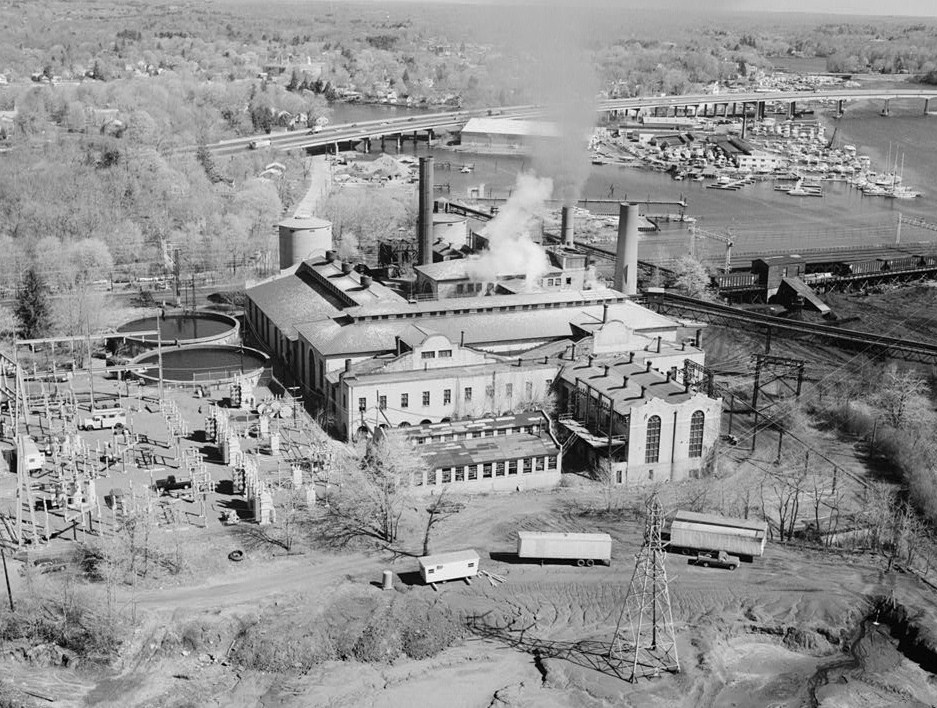 Cos Cob Power Station of the electric New York, New Haven and Hartford Railroad — formerly located in Greenwich, Connecticut. Built 1907 by the New York, New Haven & Hartford Railroad, demolished in 2001. Image (1977): HABS—Historic American Buildings Survey of Connecticut, cropped.